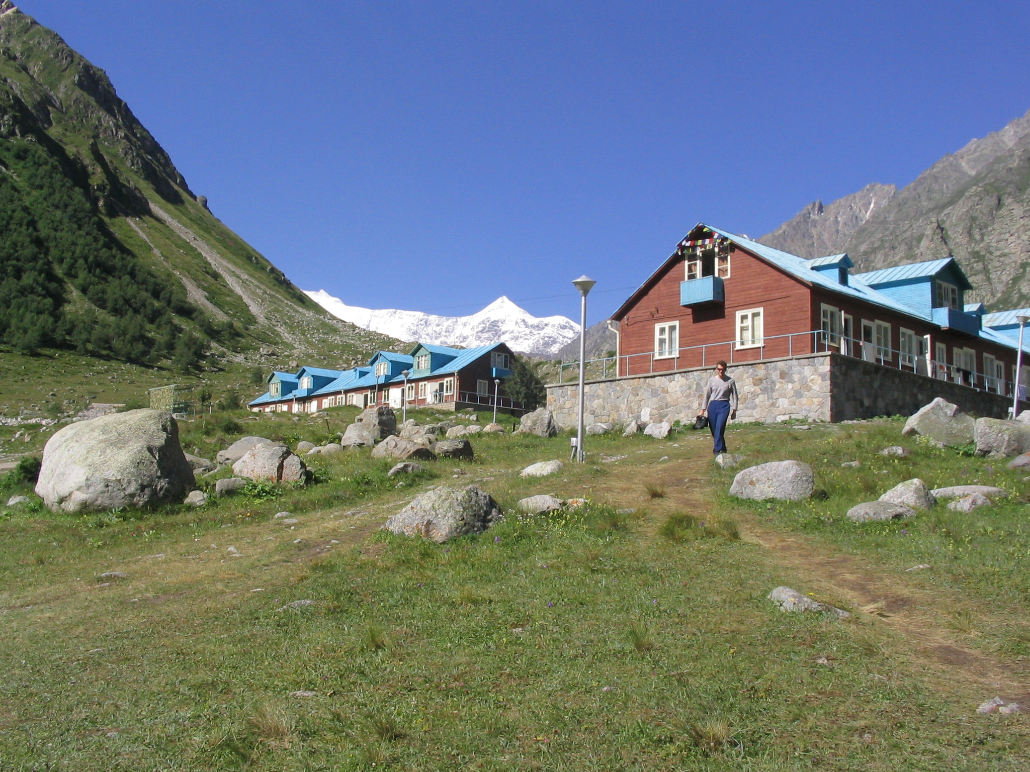 The Bezengi camp